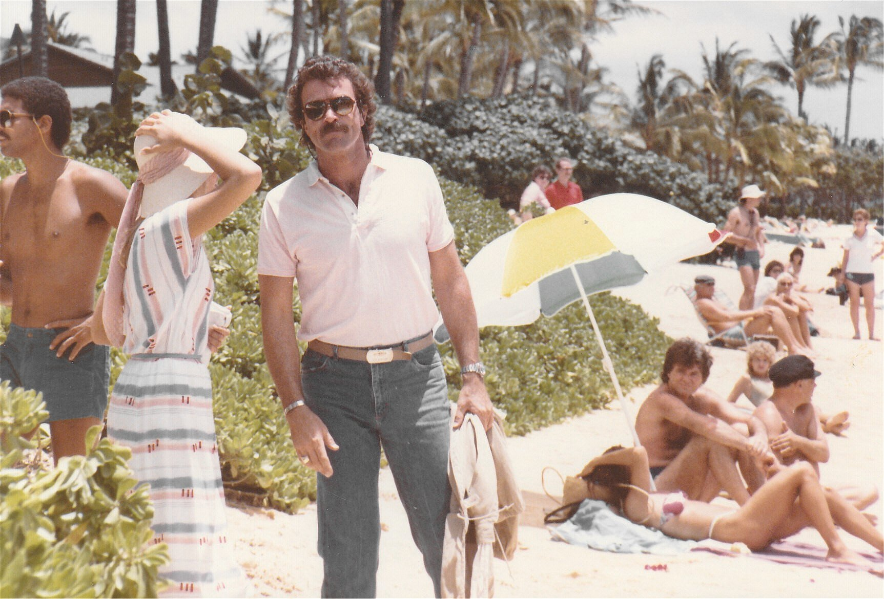 Tom Selleck, filming a scene for MAGNUM P.I. in April 1984 at the Kahala Hilton Hotel in Hawaii.